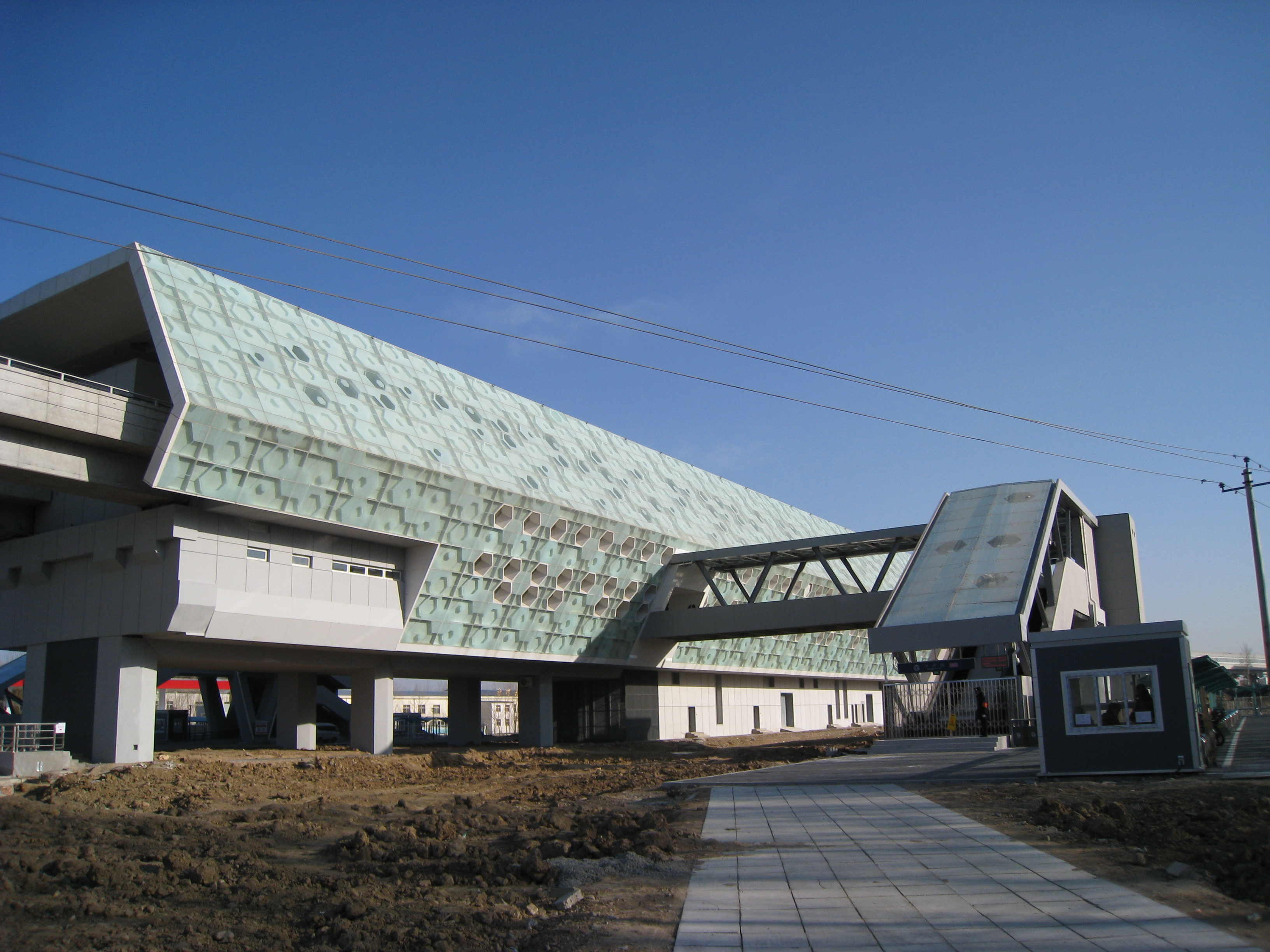 Shahe Station of Changping Line, Beijing Subway